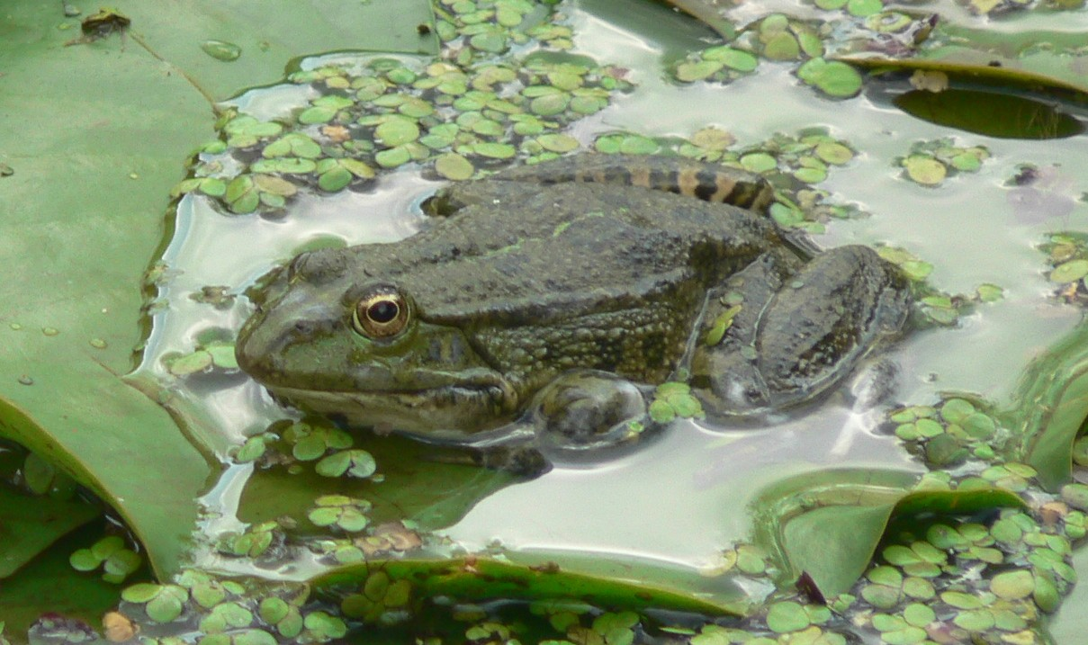 Frog sitting idly on a water lilly leaf